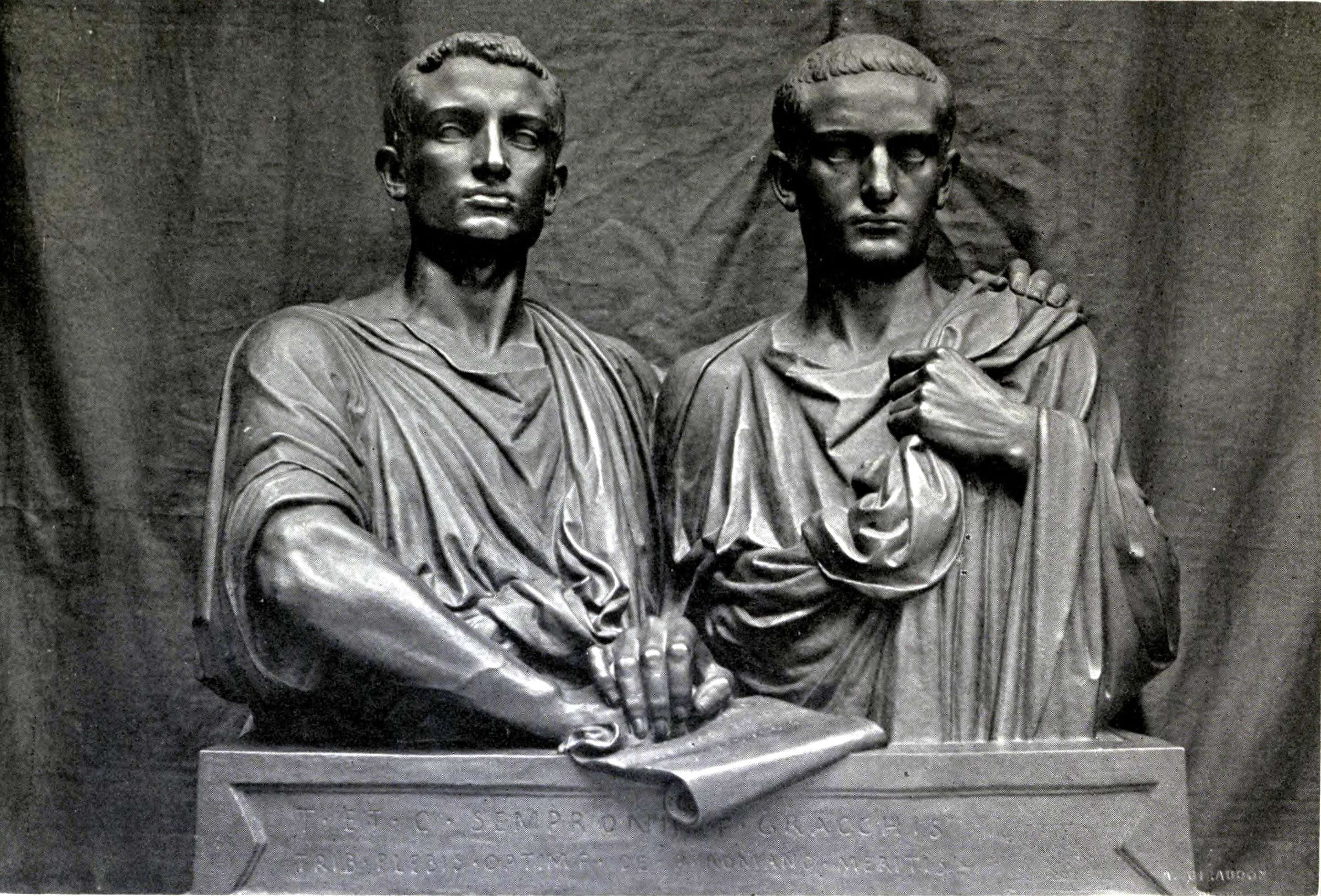 the Gracchi, half-length group